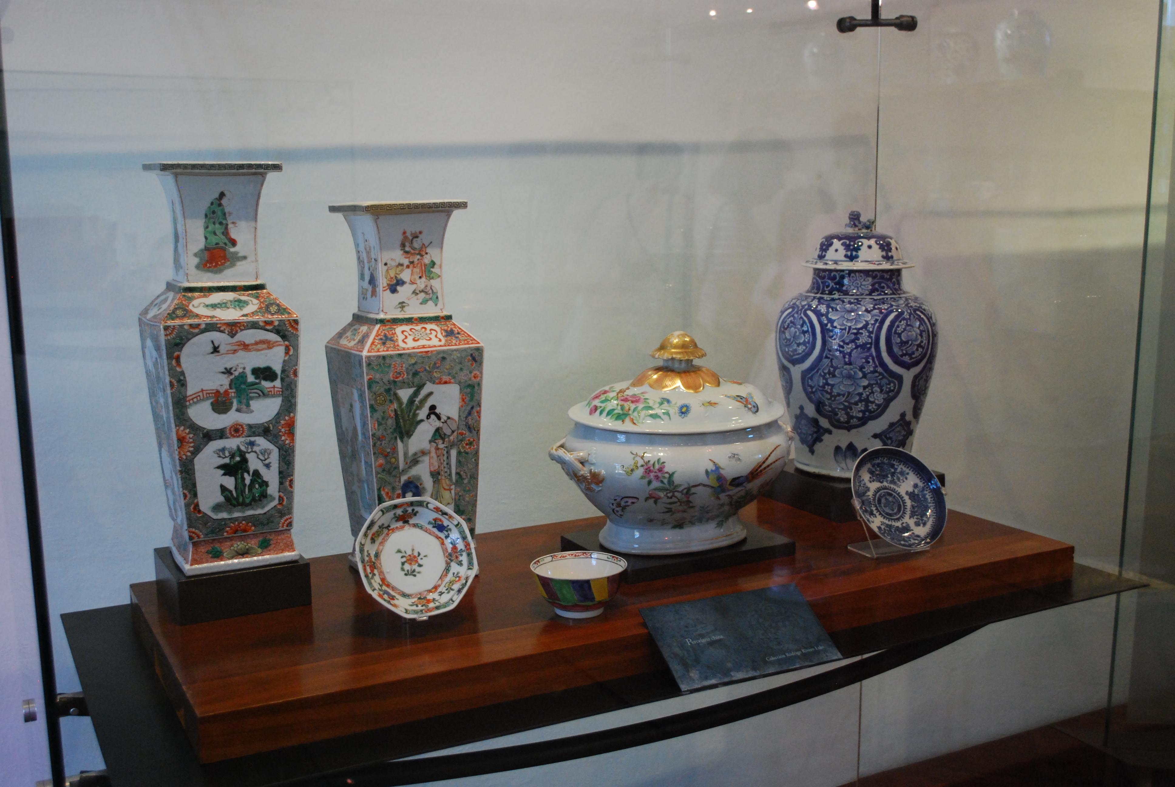 Oriental porcelain on display at the San Diego Fort in Acapulco, Mexico